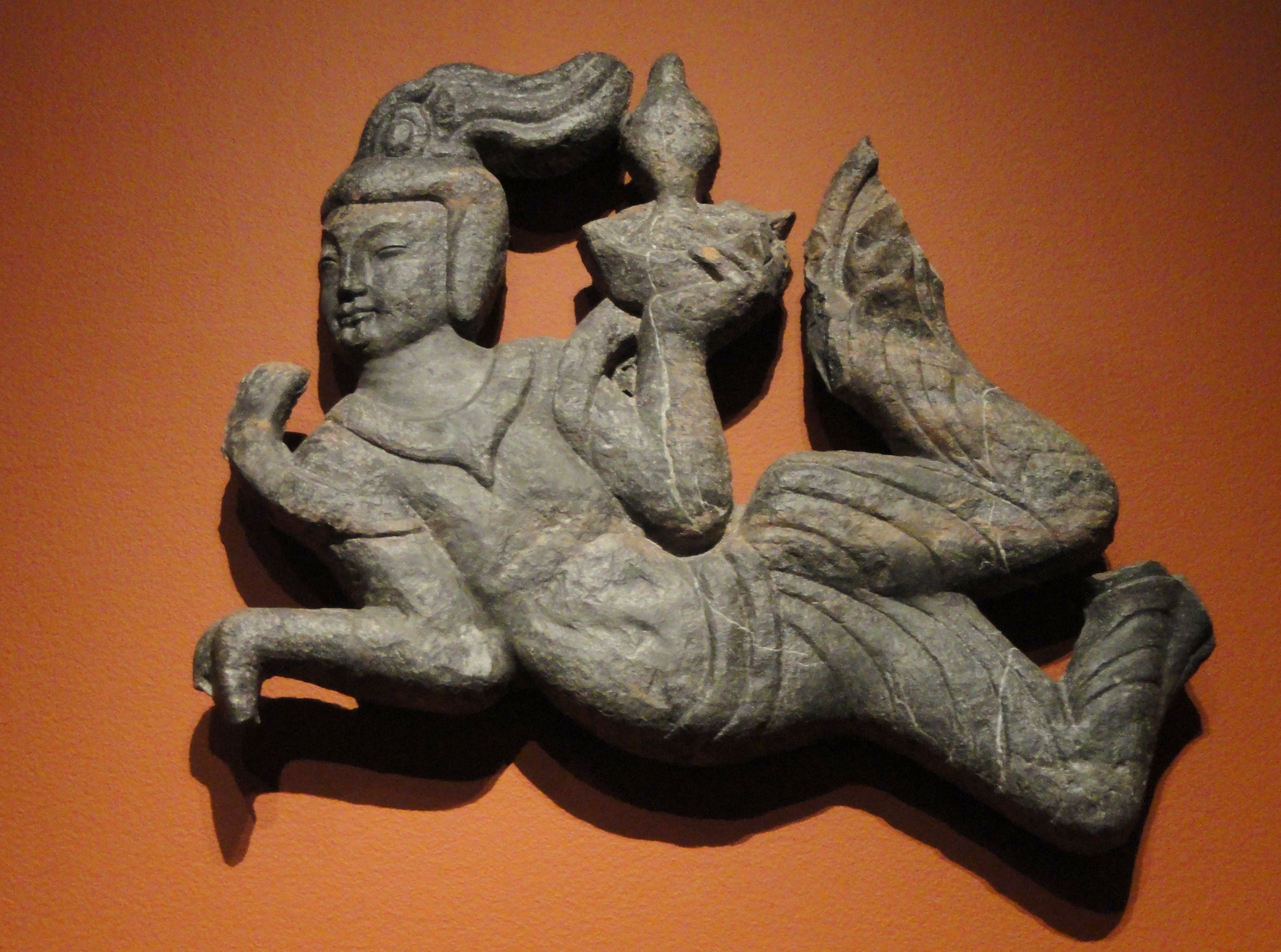 Exhibit in the San Diego Museum of Art, San Diego, California, USA. This artwork is old enough so that it is in the public domain.